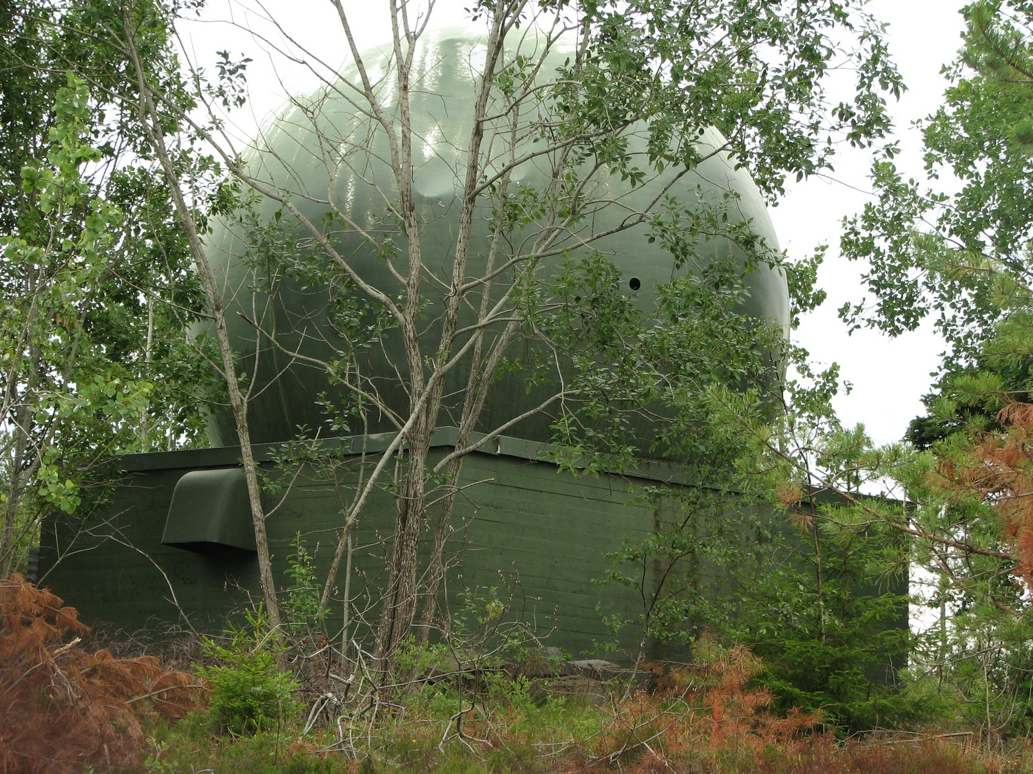 Radome at the former NIKE site Våler, Østfold, Norway